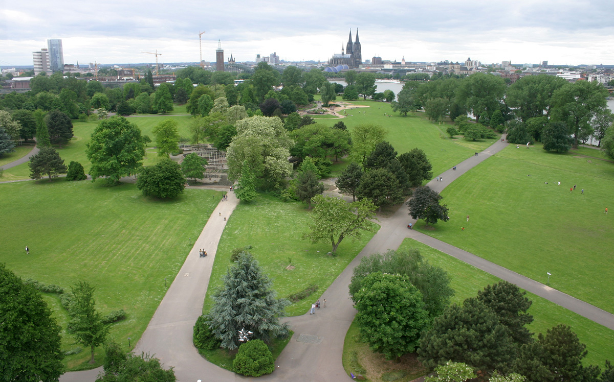 Rheinpark at Cologne, Germany